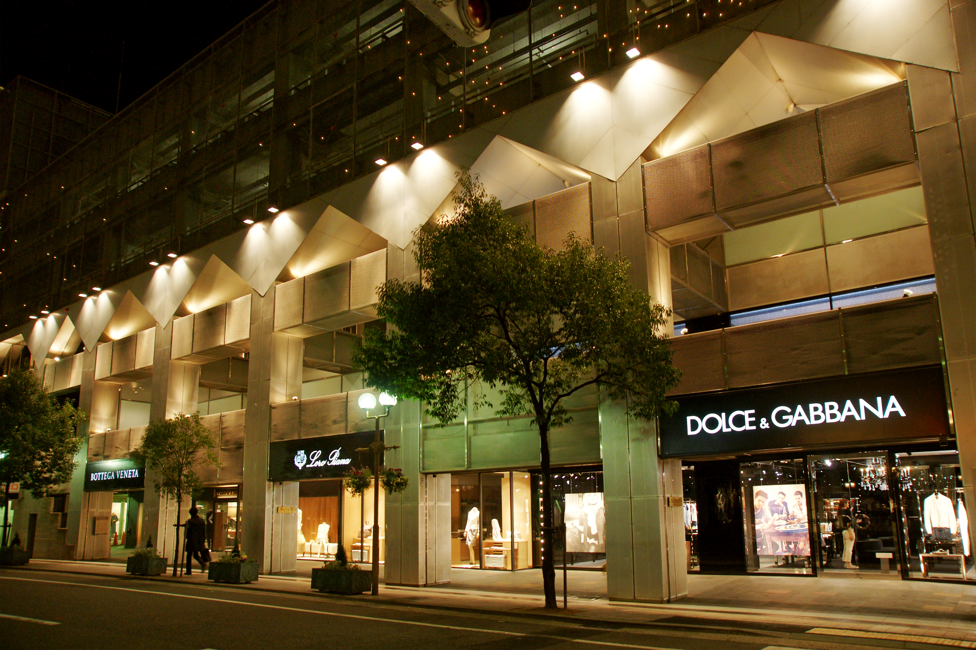 BLOCK30 in Kobe, Hyogo prefecture, Japan